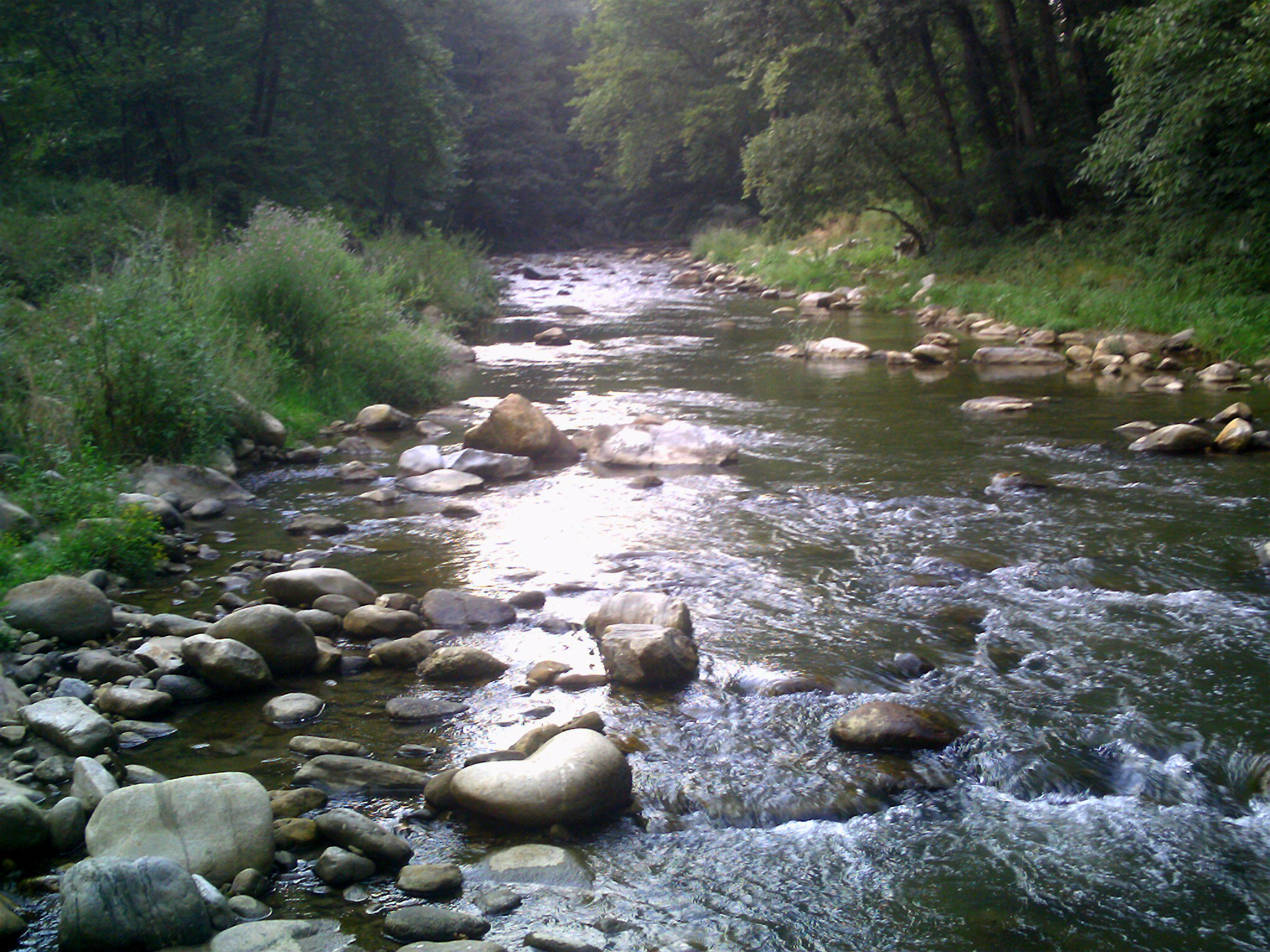 The Mesta (Nestos) River as it flows near the village of Tuhovishta.